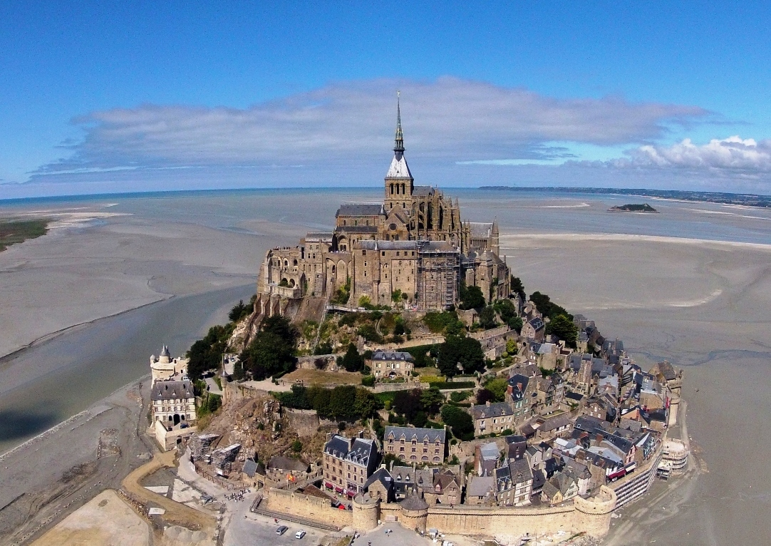 "The Mont-Saint-Michel, which is to the ocean what (the Pyramid of) Cheops is to the desert" . Victor Hugo, in "Quatre-vingt-treize". The Mont-Saint-Michel, its abbey, its bay, as seen from the sky (RC Quadcopter). On the left, the Couesnon river, on the right, the Tombelaine island. .